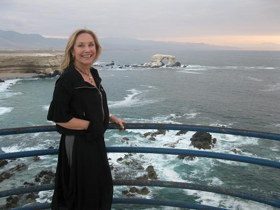 Cecilia Morel, wife of Sebastián Piñera, in La Portada, Antofagasta.